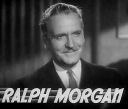 Ralph Morgan in Speed - trailer (cropped screenshot)